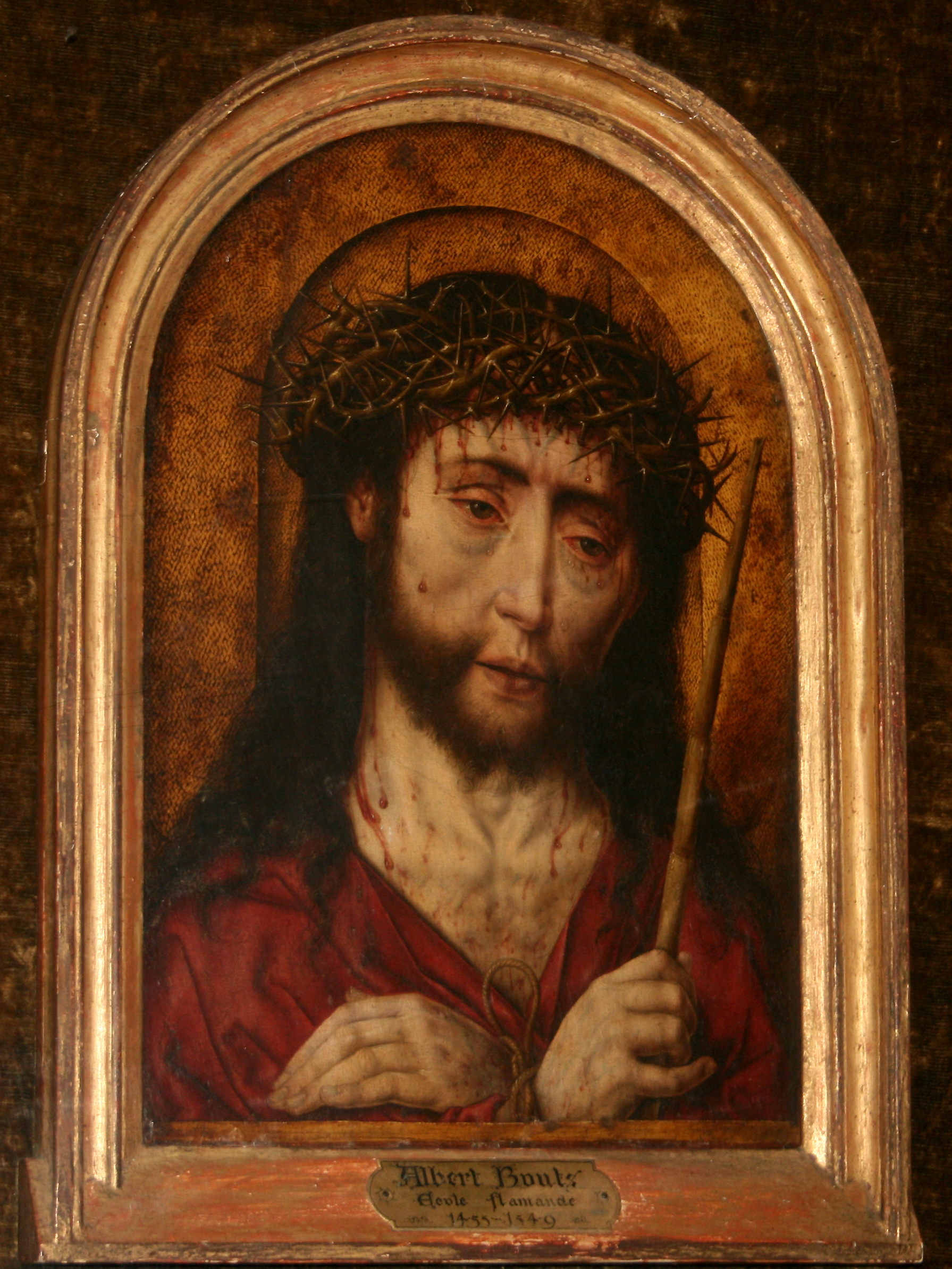 Aelbrecht Bouts - Oil on panel painting ‘The Mocking of Christ’, early 16th Century - La Cambre Abbey church Ixelles (Belgium).